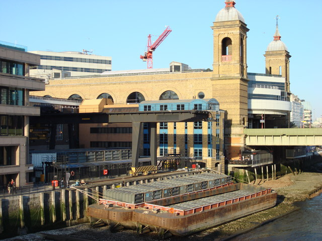 Thames barges today Barges at a container handling facility on the Thames in the Shadow of Cannon Street Railway terminus. Taken from Southwark Bridge.